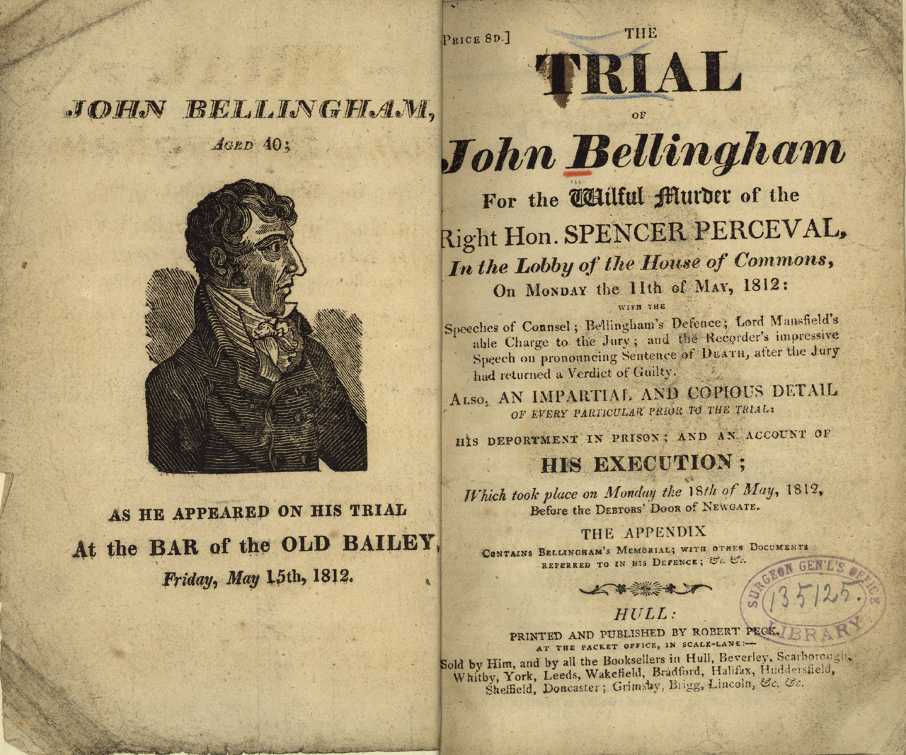 Pamphlet describing the trial of John Bellingham for the wilful murder of the Right Hon. Spencer Perceval